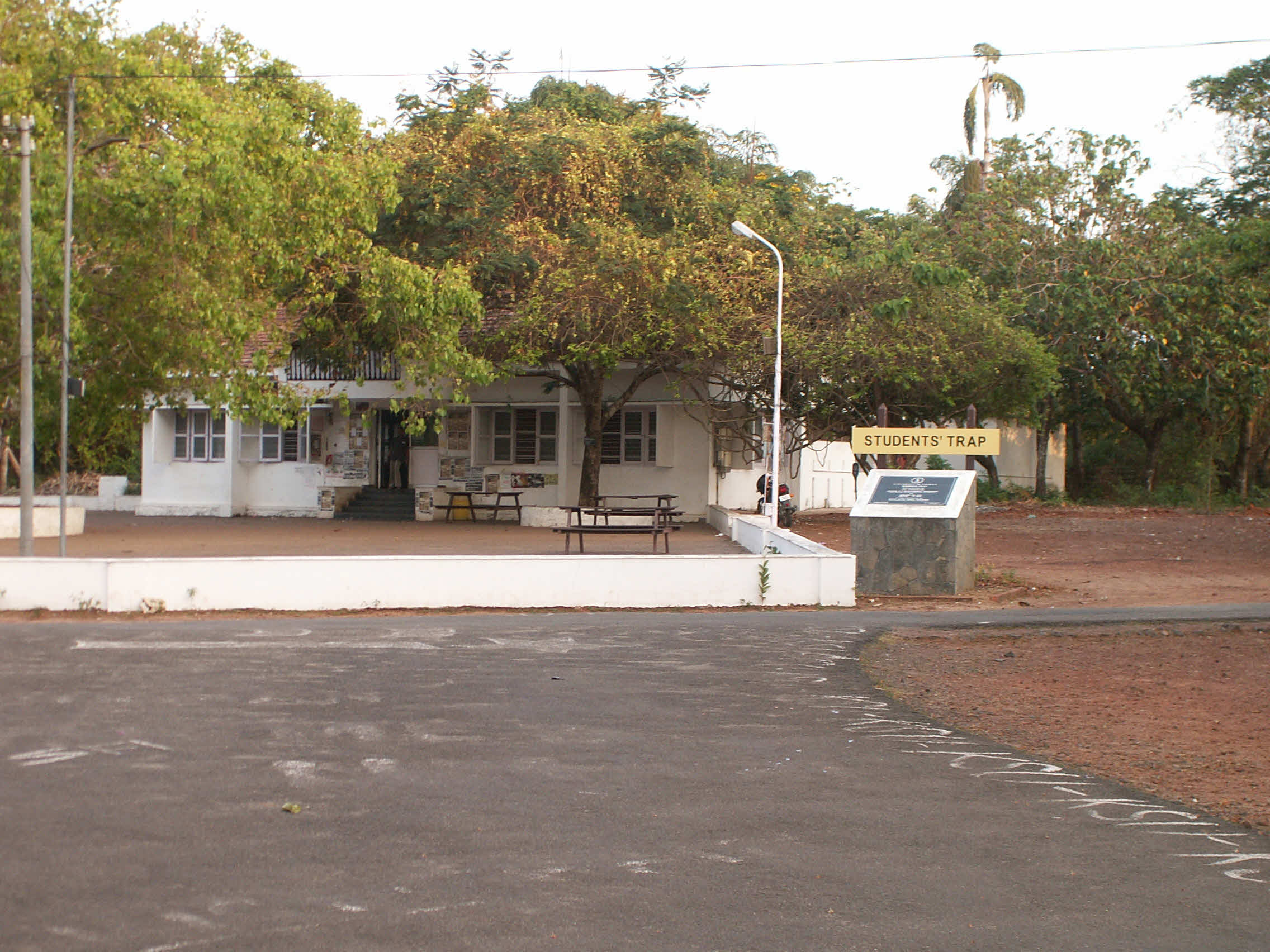 Students' Trap in Calicut University Campus.